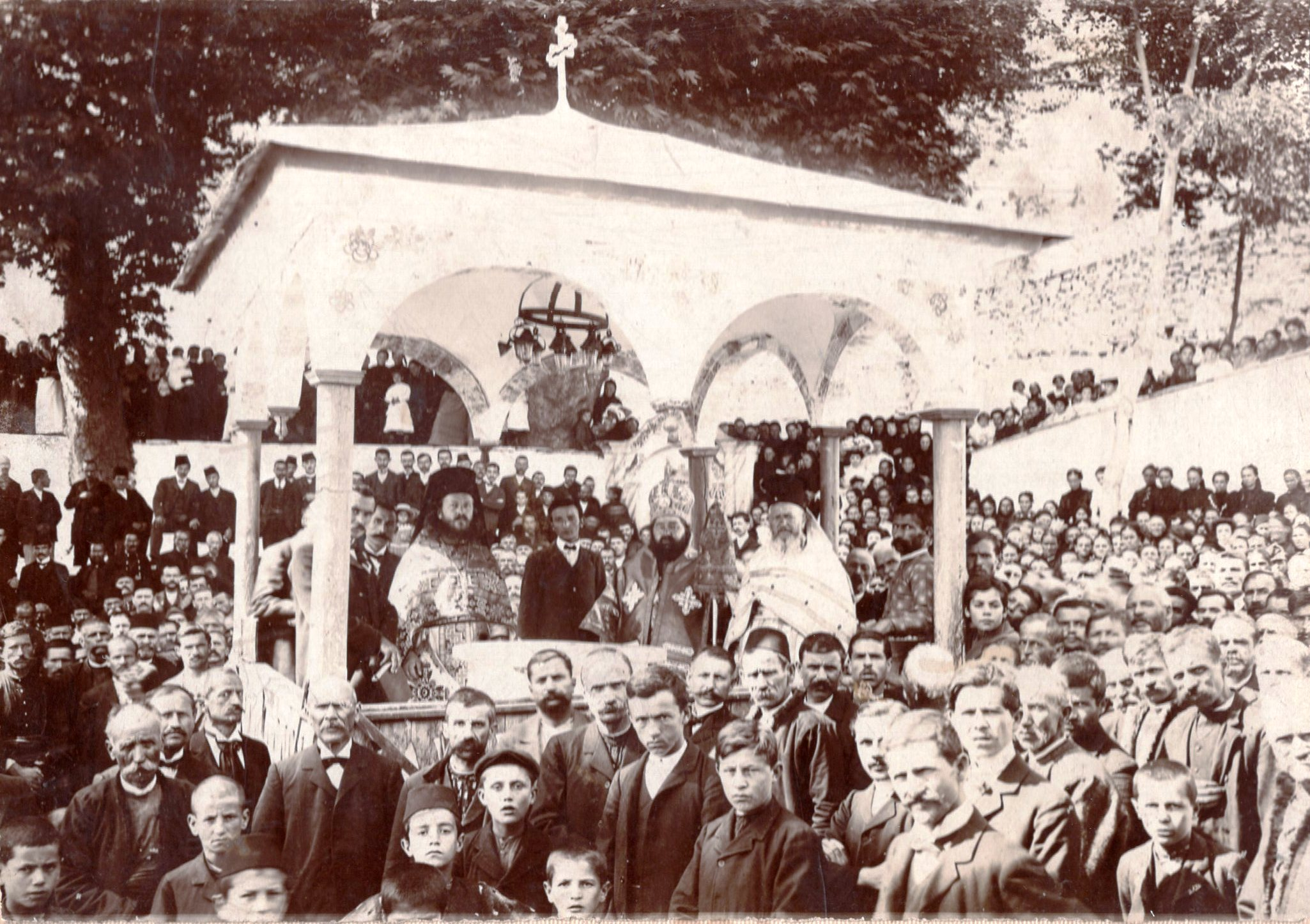 Recorded on Epiphany day in the church "St. Panteleimon" Veles, 1906 This media file is produced by Wikipedian in Residence in Category:Wikipedian in Residence at DARM in 2016.